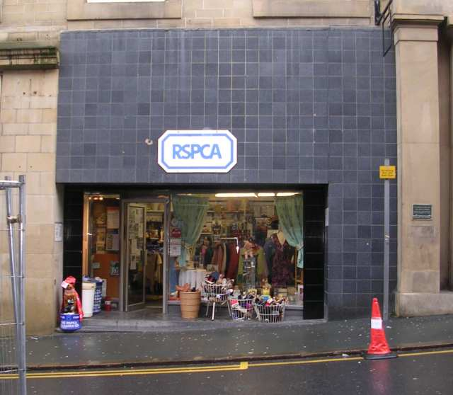 RSPCA Shop - Piccadilly